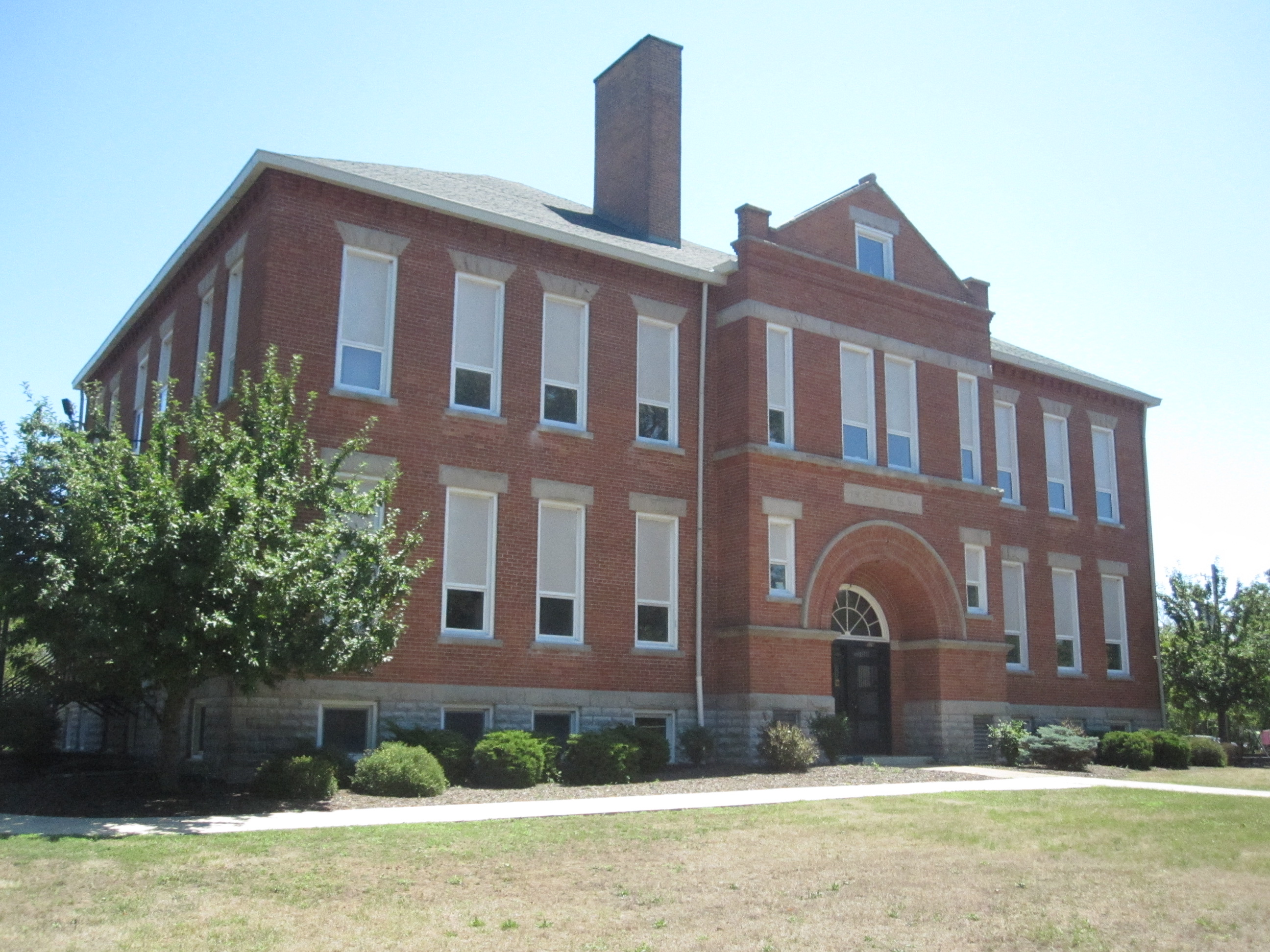 The Estes Schoolhouse in Kelleys Island, photographed 7/30/2011.